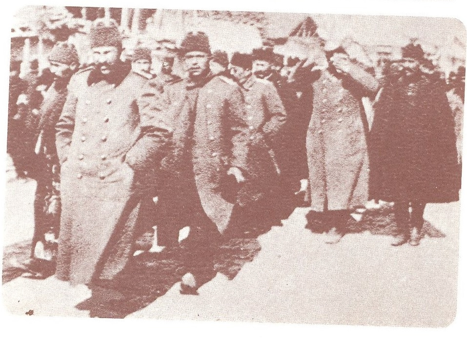 Captured turkish officers during the battle of Kumanovo Српски (ћирилица): Заробљени турски официри у Кумановској бици